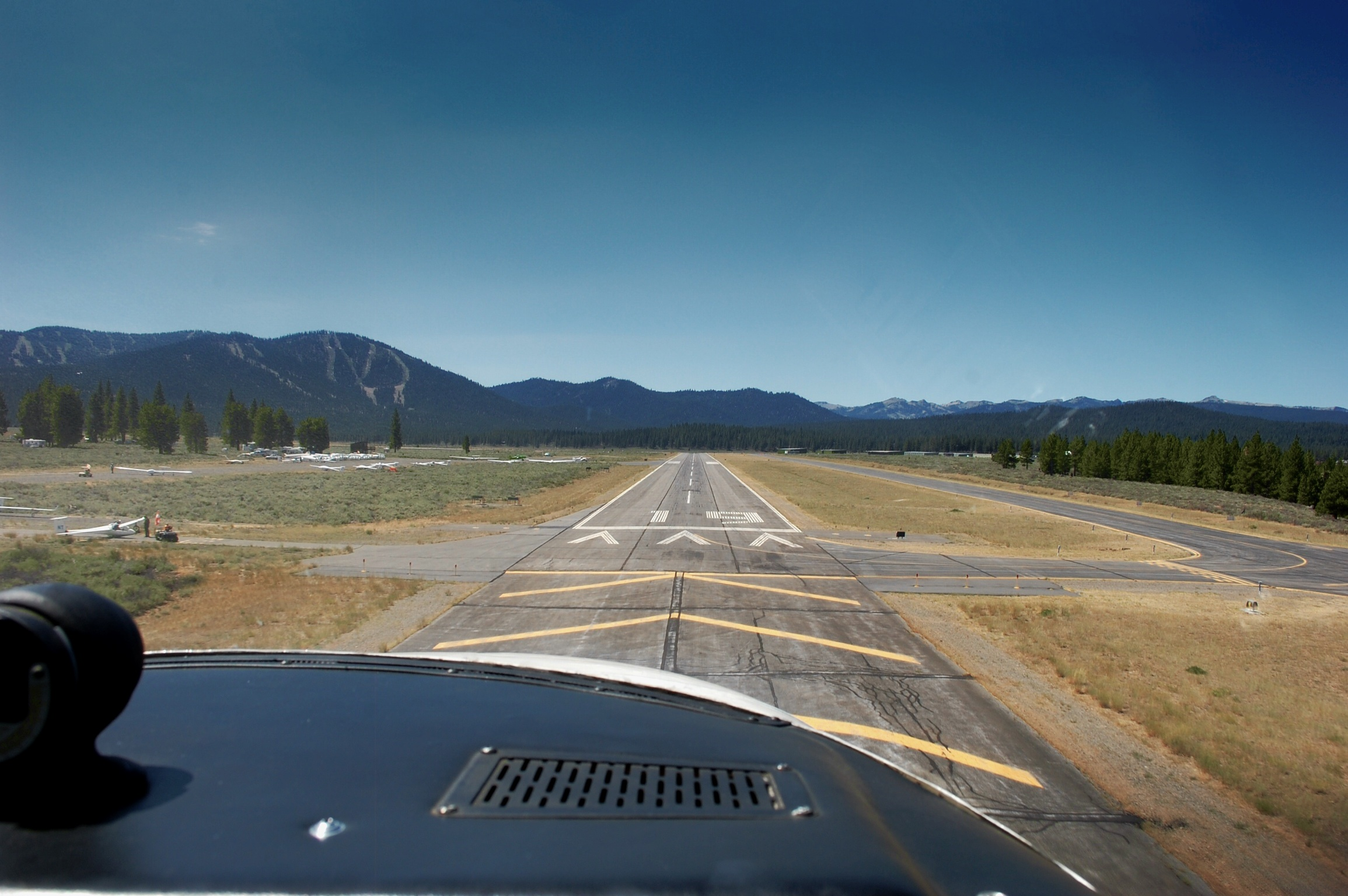 Landing at Truckee-Tahoe Airport, summer 2012, Beechcraft Baron